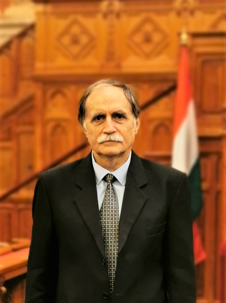 Molnár Pál. Taken on the 18th of September, 2019. Felsőház, Országház. Budapest, Hungary.